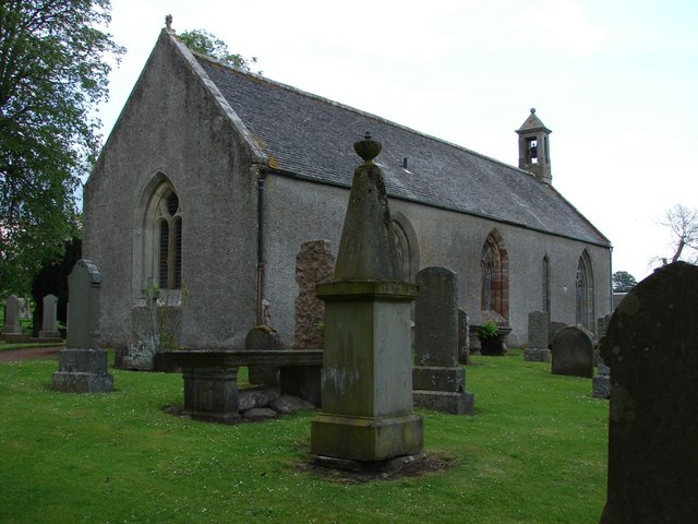 St. Michael's Church Of Scotland, Covington The old church at Covington, currently undergoing a conversion to a dwelling-house.